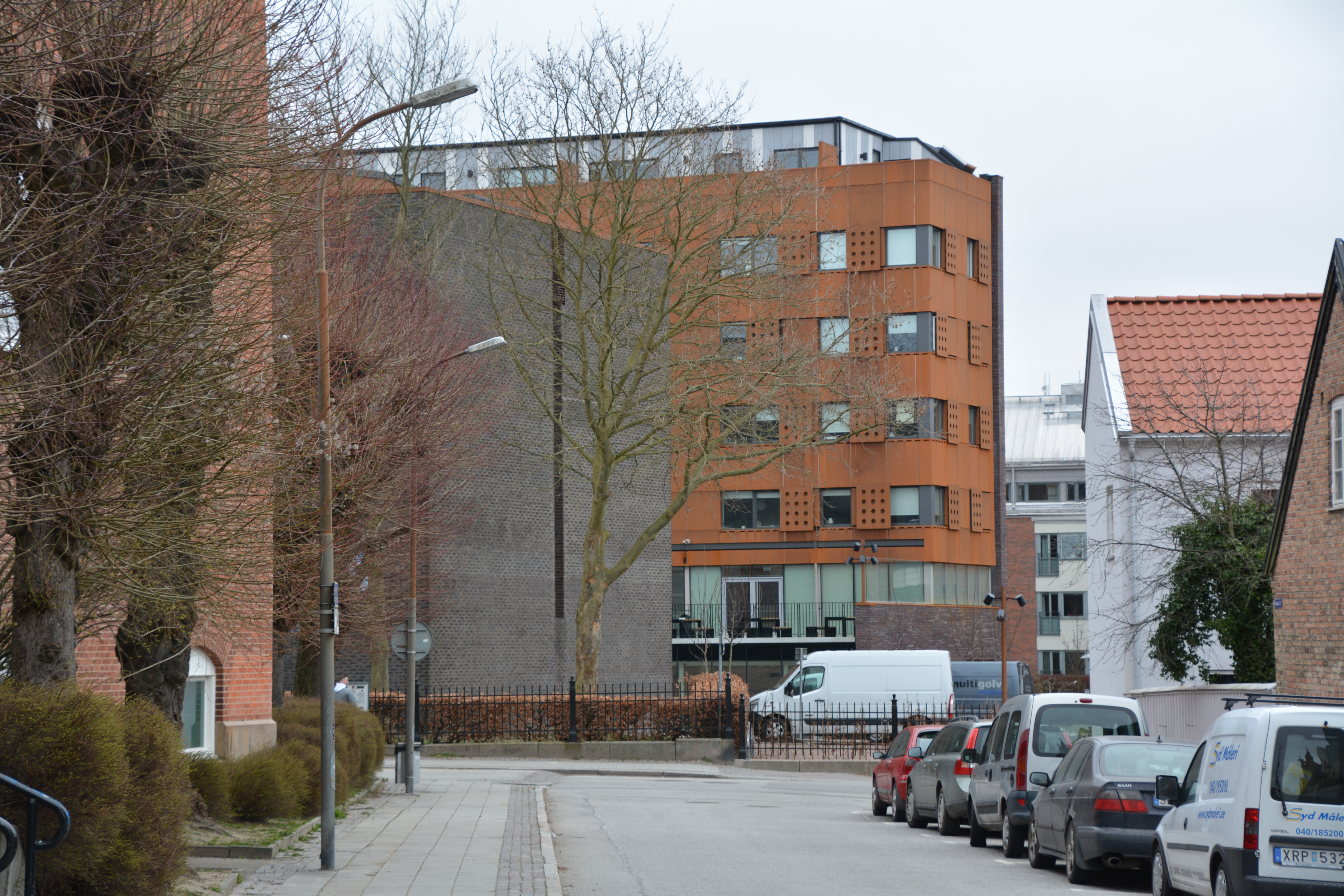 Lunds nations nyare nationshus, Lund